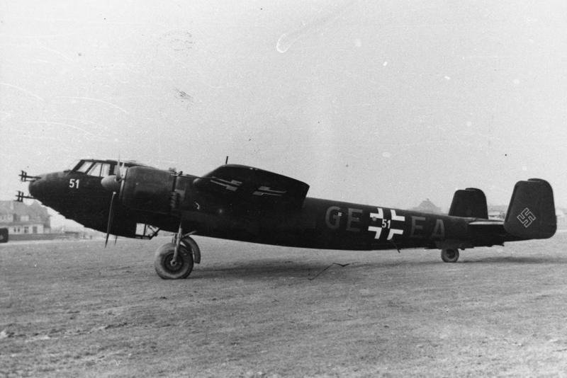 The German Air Force in the Second World War Dornier Do 217J-1 night fighter prototype fitted with FuG 202 AI radar